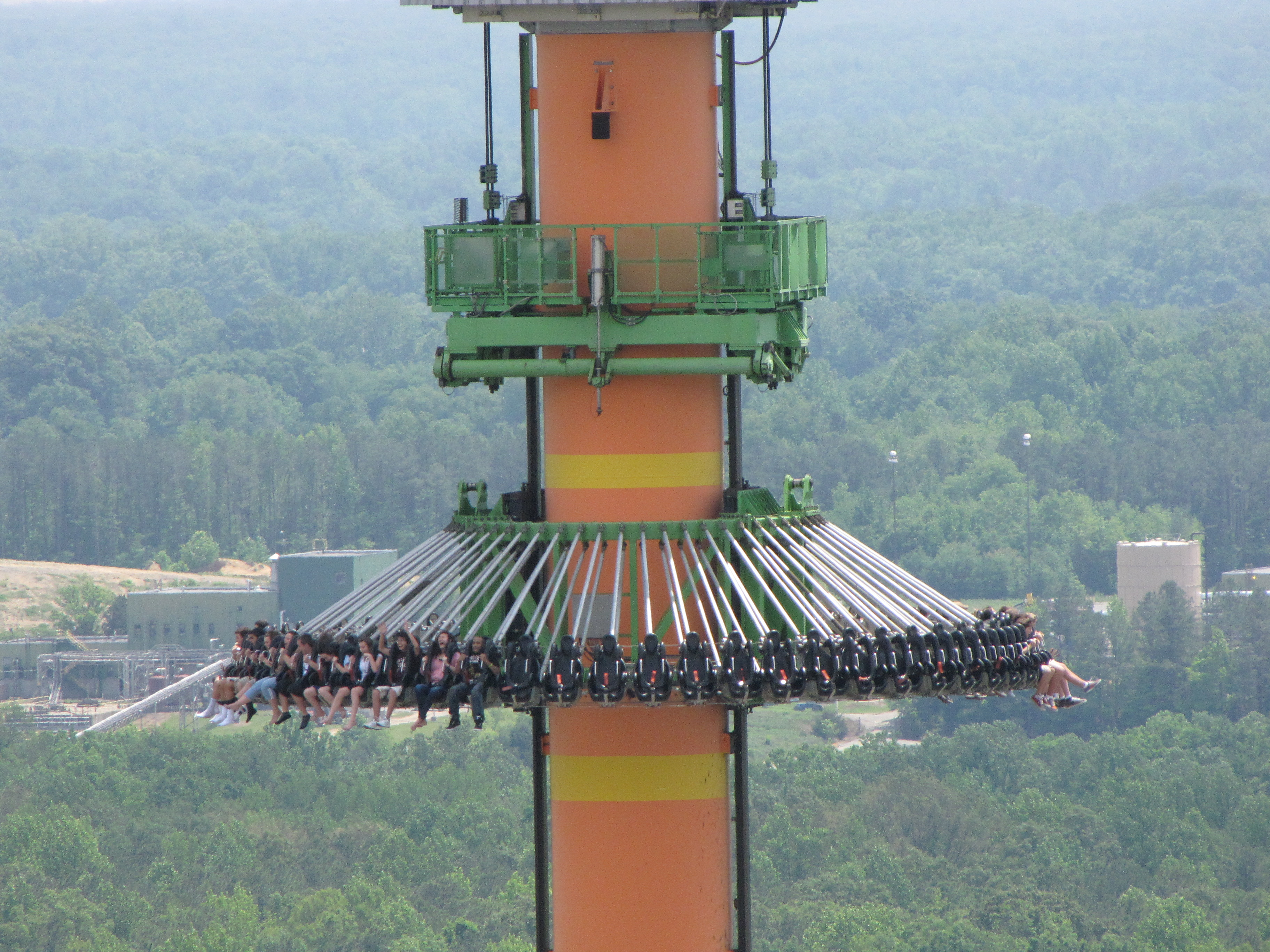 Kings Dominion Drop Tower at the beginning of a drop. The circular car is falling down the track, heading towards the bottom. View from Eiffel Tower replica.